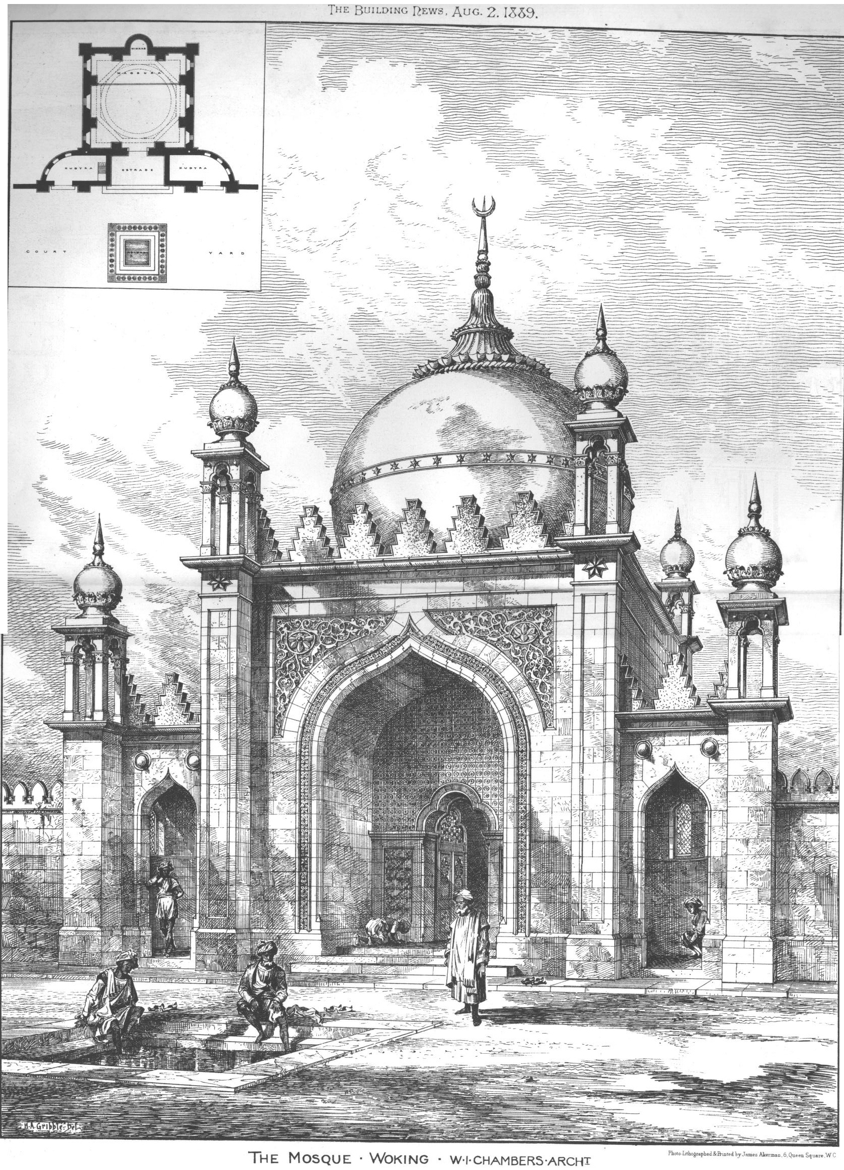 A drawing by the architect W. I. Chambers of Woking Mosque (now known as Shah Jahan Mosque, Woking, England. Published in The Building News and Engineering Journal, shortly before the Mosque was completed. The footer reads "Photo-Lithographed & Printed by James Akerman, 6 Queen Square, WC".